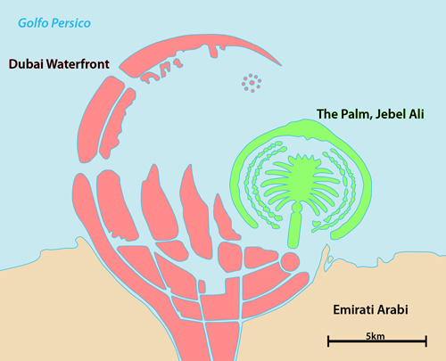 Dubai Waterfront